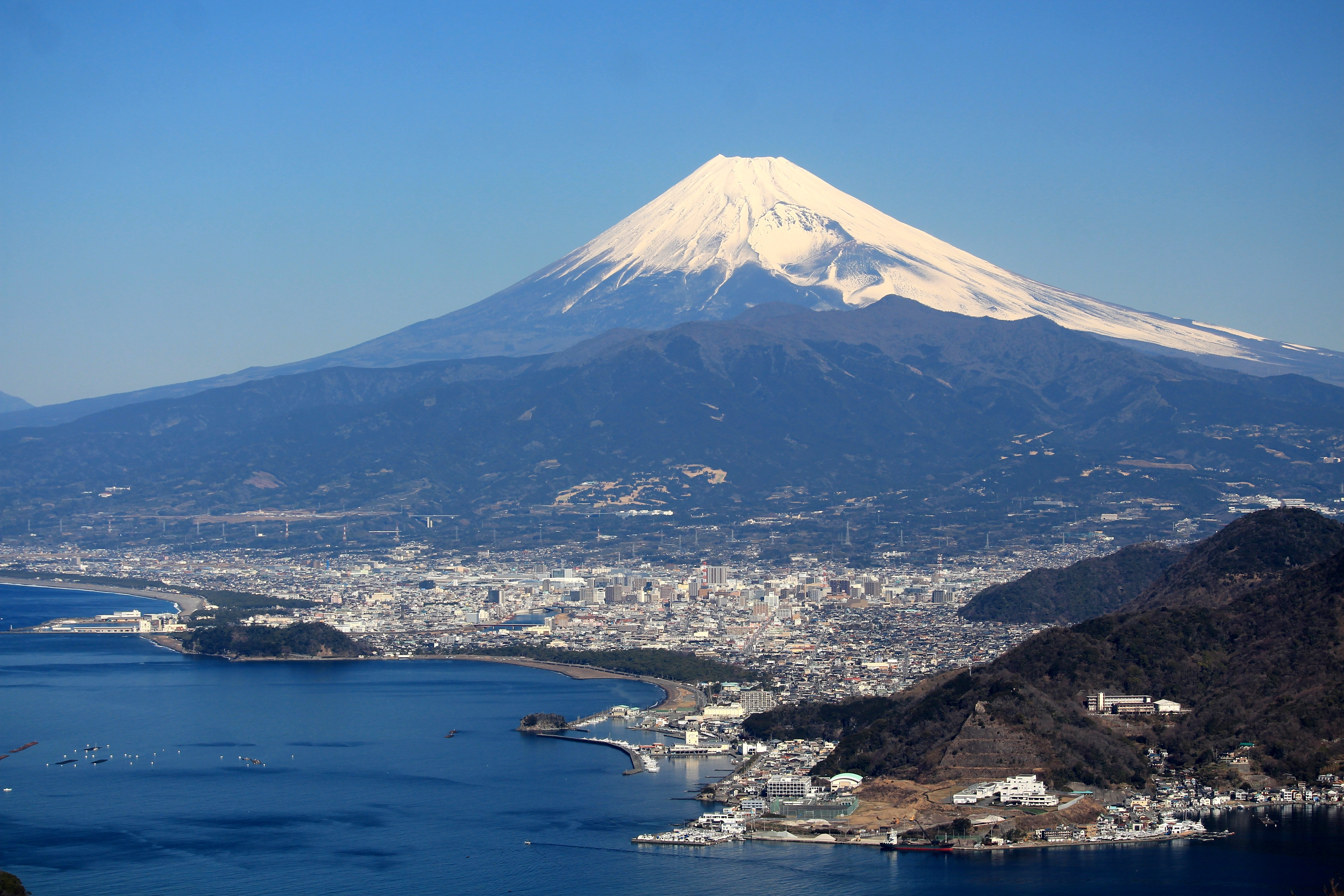 Numazu and Mount Fuji seen from Mount Hottanjō, in Numazu, Shizuoka prefecture, Japan.